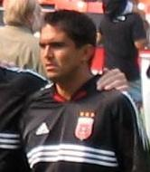 Photo of Jaime Moreno taken by me at a D.C. United game at Robert F. Kennedy Memorial Stadium.